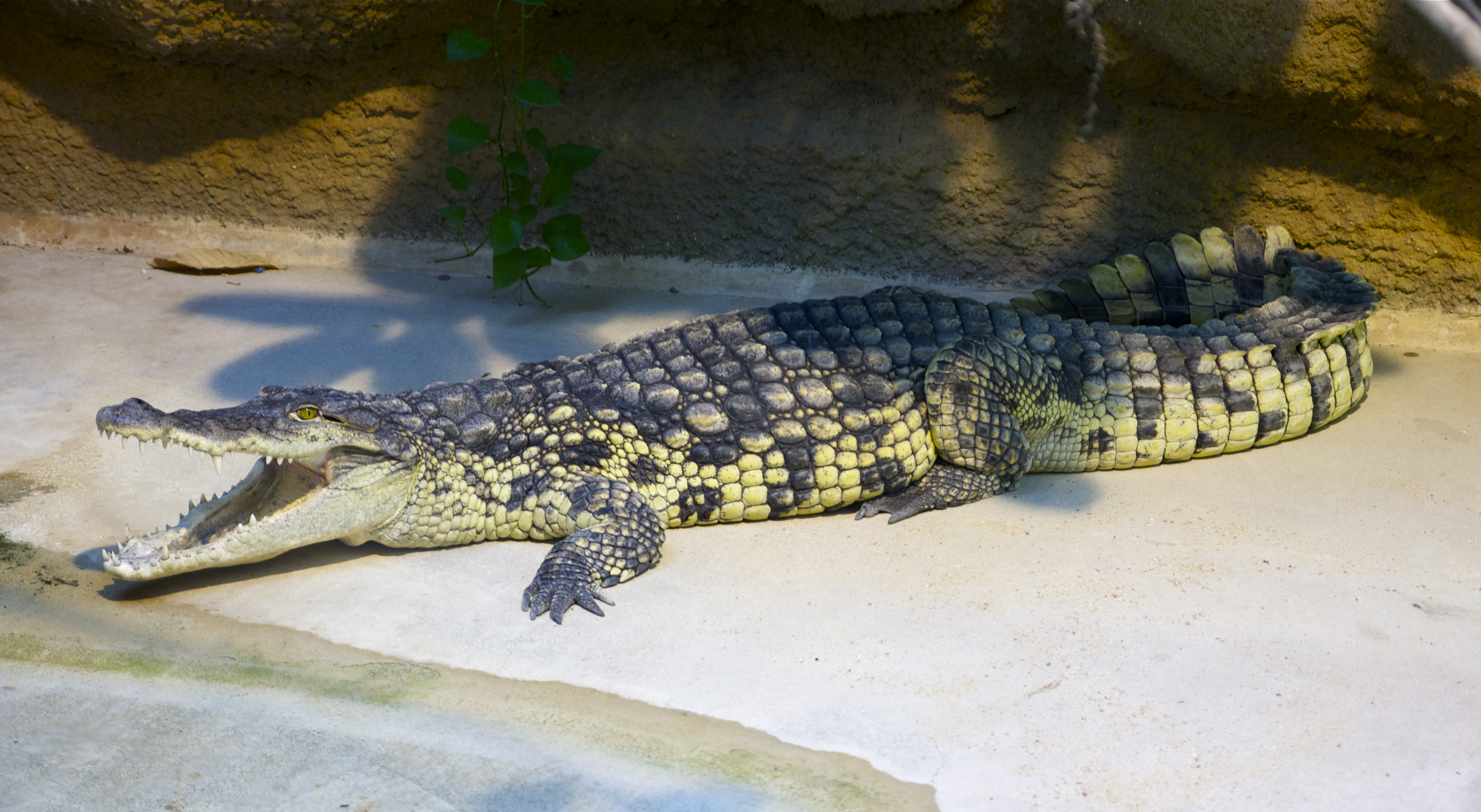 Crocodylus niloticus Nile crocodile. Ménagerie of the Jardin des Plantes, Paris